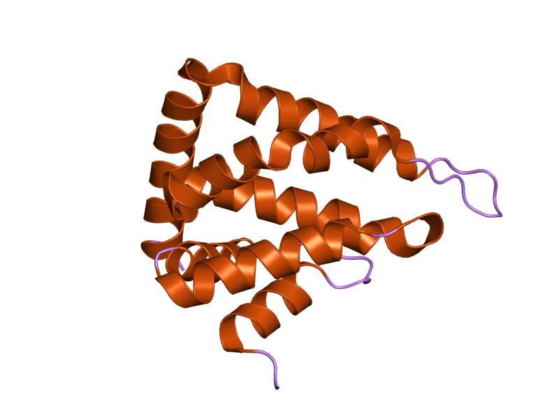 Cartoon representation of the molecular structure of protein registered with 1eyh code.